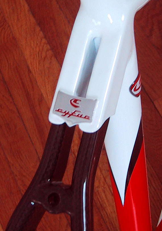 Cyfac's double-stay seat stay, designed to add comfort in the ride of the bicycle.